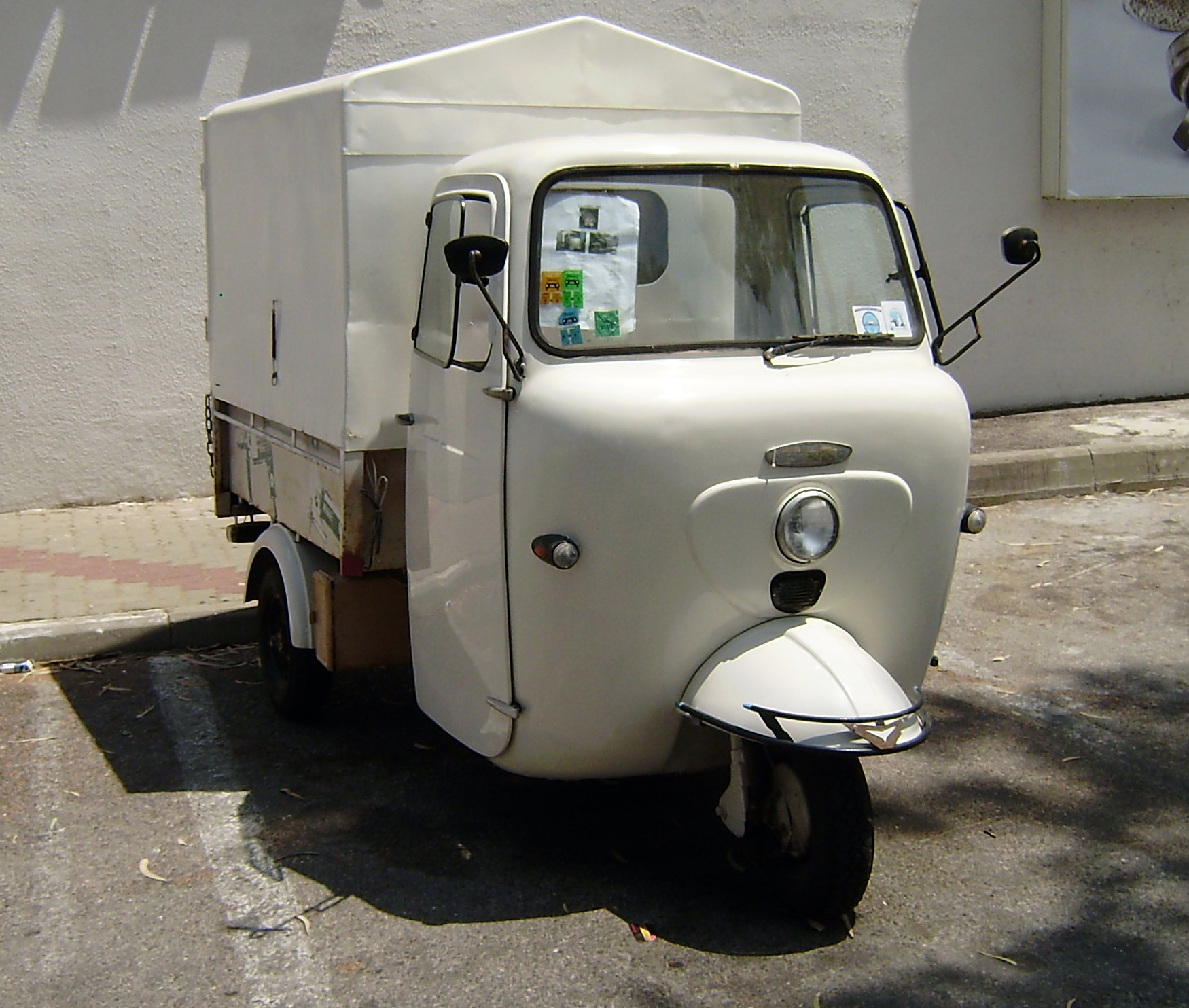 Innocenti Lambro 200